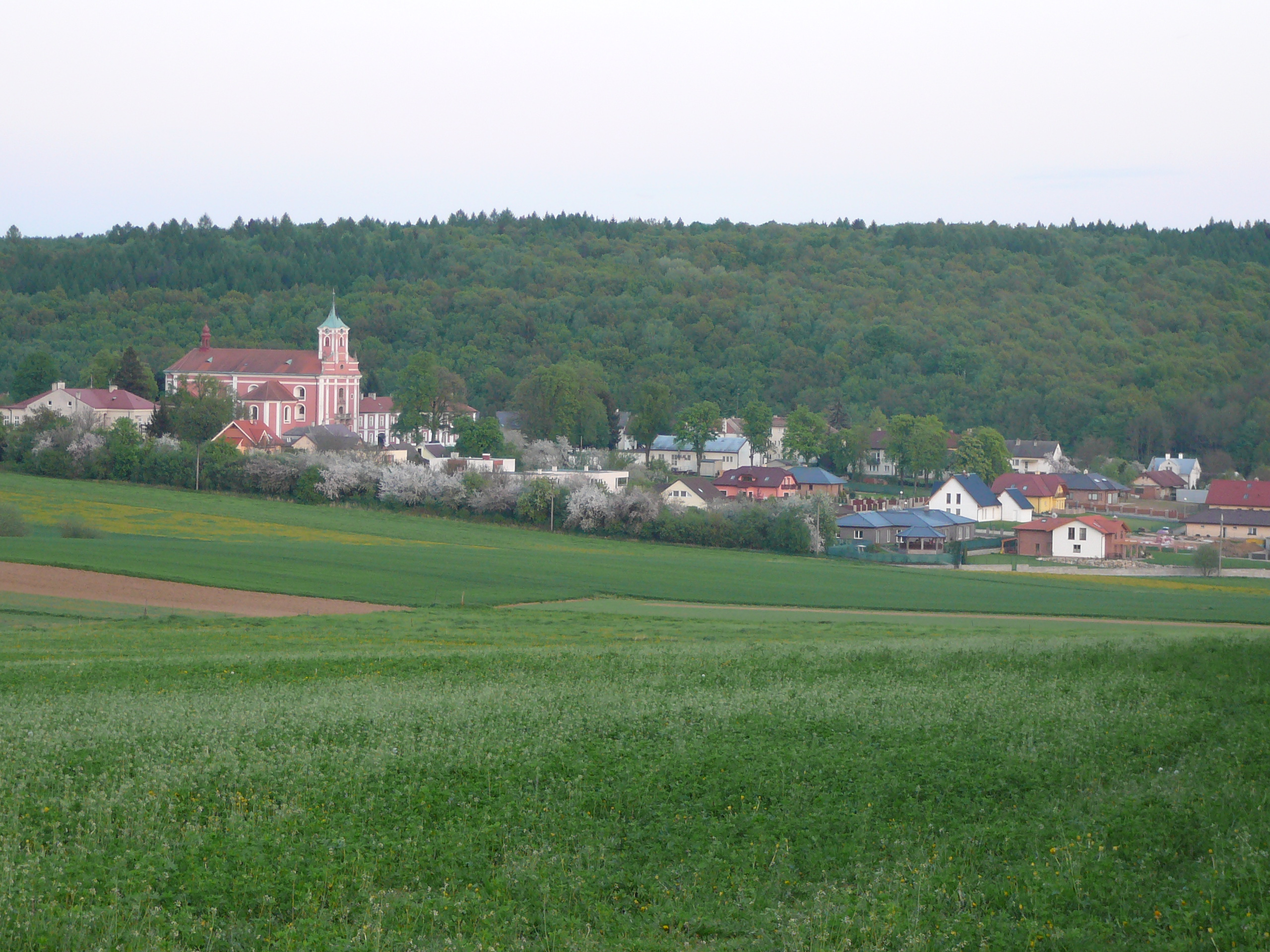 Štípa from Kostelec